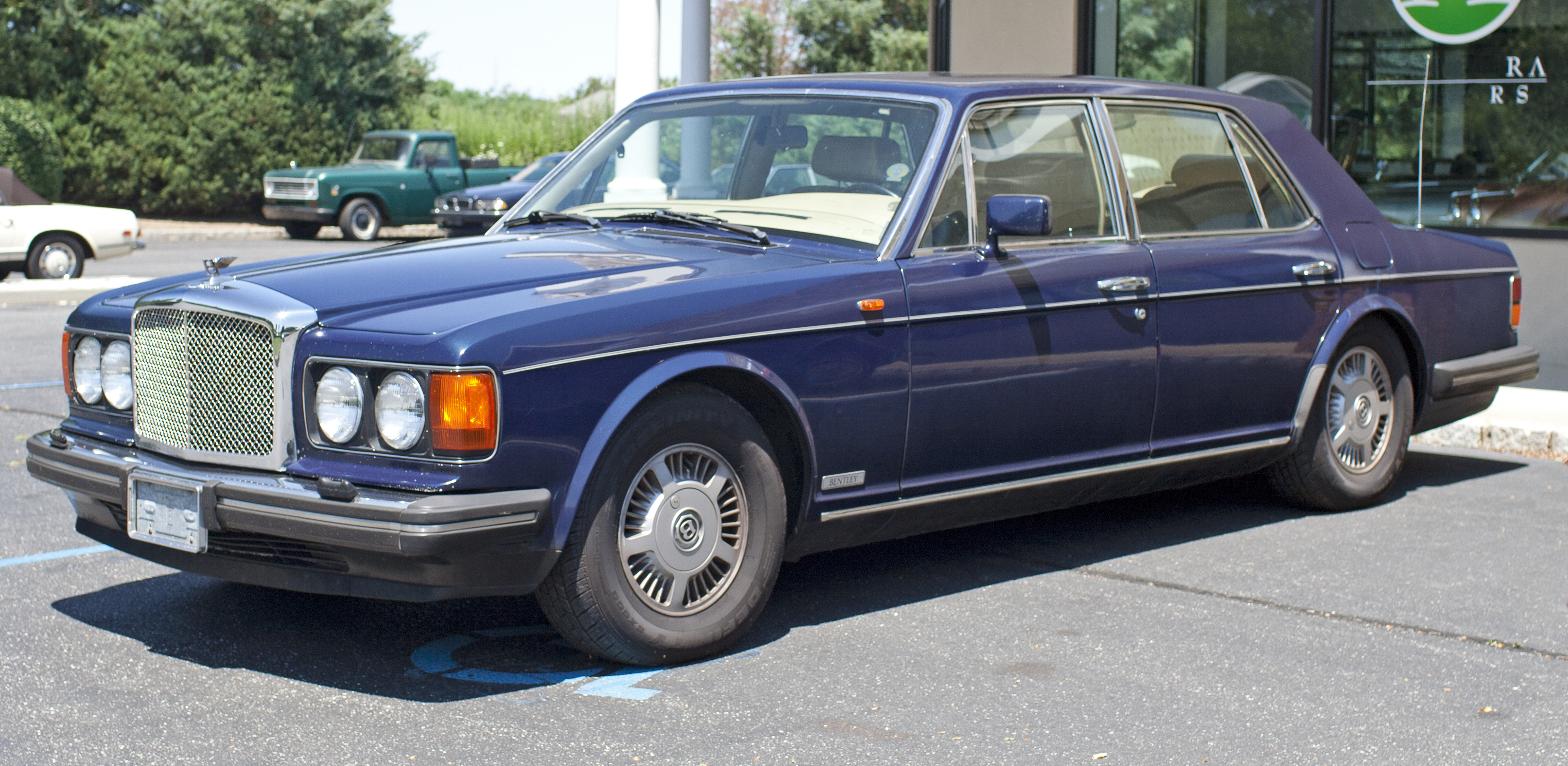 1989 Bentley Eight - without airbags!